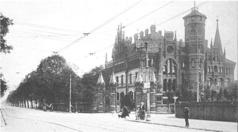 Villa Willmer ("Tränenburg", palace of tears) in Hanover, Lower Saxony, Germany. Built in 1890 by Karl Börgemann at Hildesheimer Straße/Güntherstraße corner. Survived WW2 but was demolished for a new modernist building in 1971, ignoring protests by the citizens of Hanover.